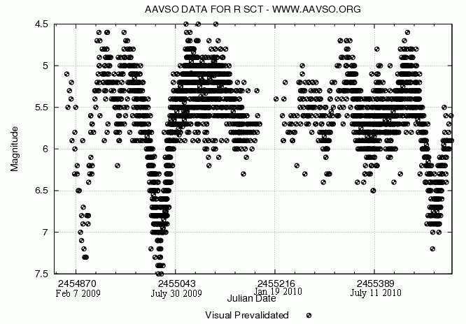 AAVSO light curve of RV Tau variable star R Sct from 1 Jan 2009 to 24 Nov 2010. Up is brighter and down is fainter. Day numbers are Julian day. Different colors reflect different bandpasses.